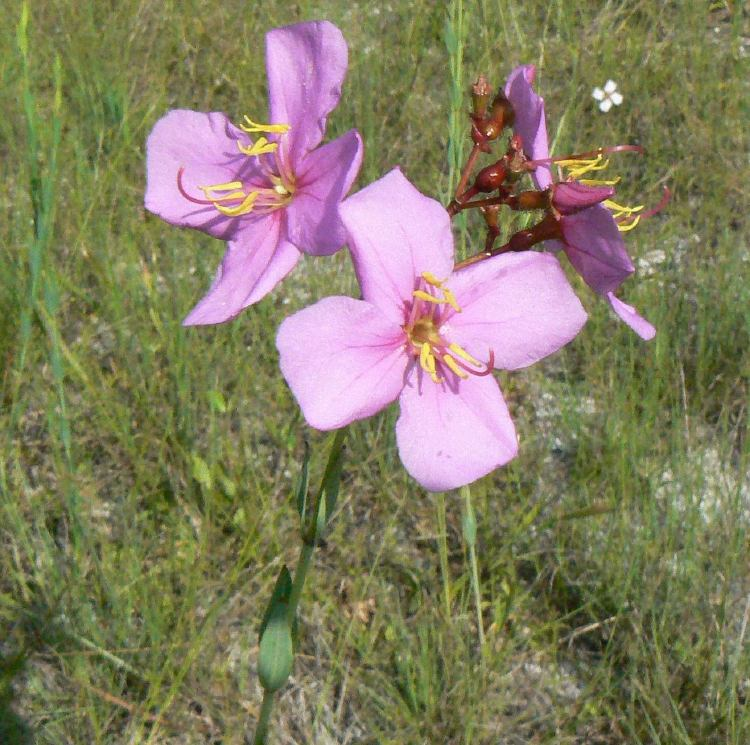 Rhexia alifanus, Liberty Co., Florida.